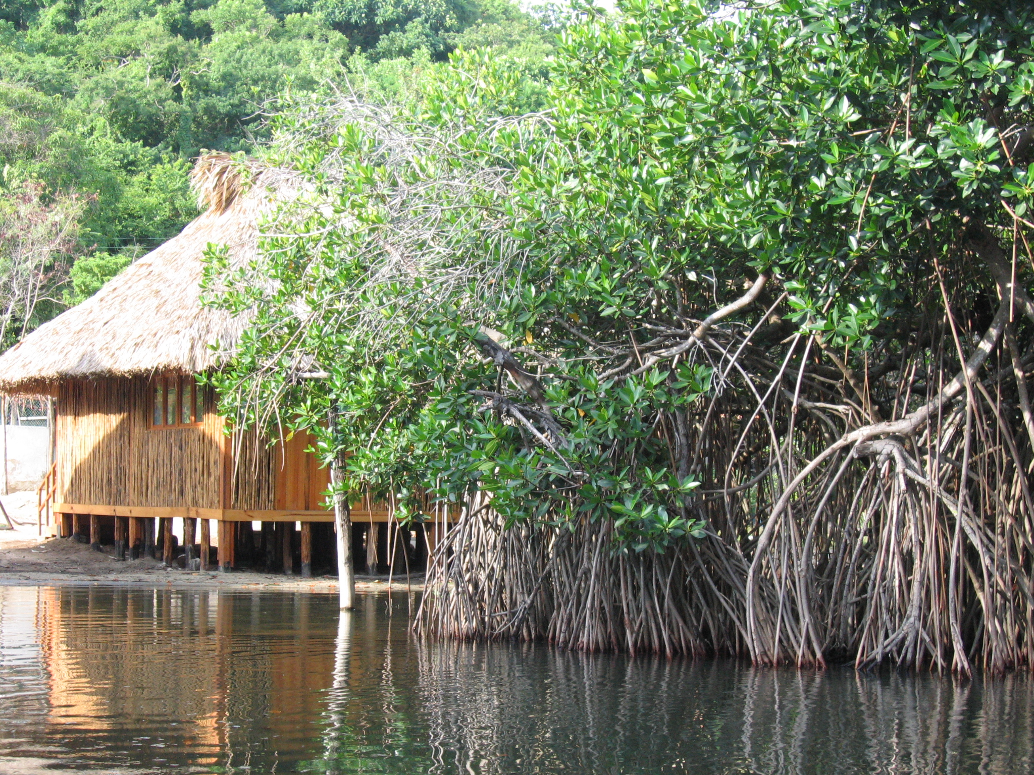 Thatched hut on stilts in lagoon — Chacahua, Oaxaca - Mexico,. Mangroves along shore. photo by Bernardo Bolaños.